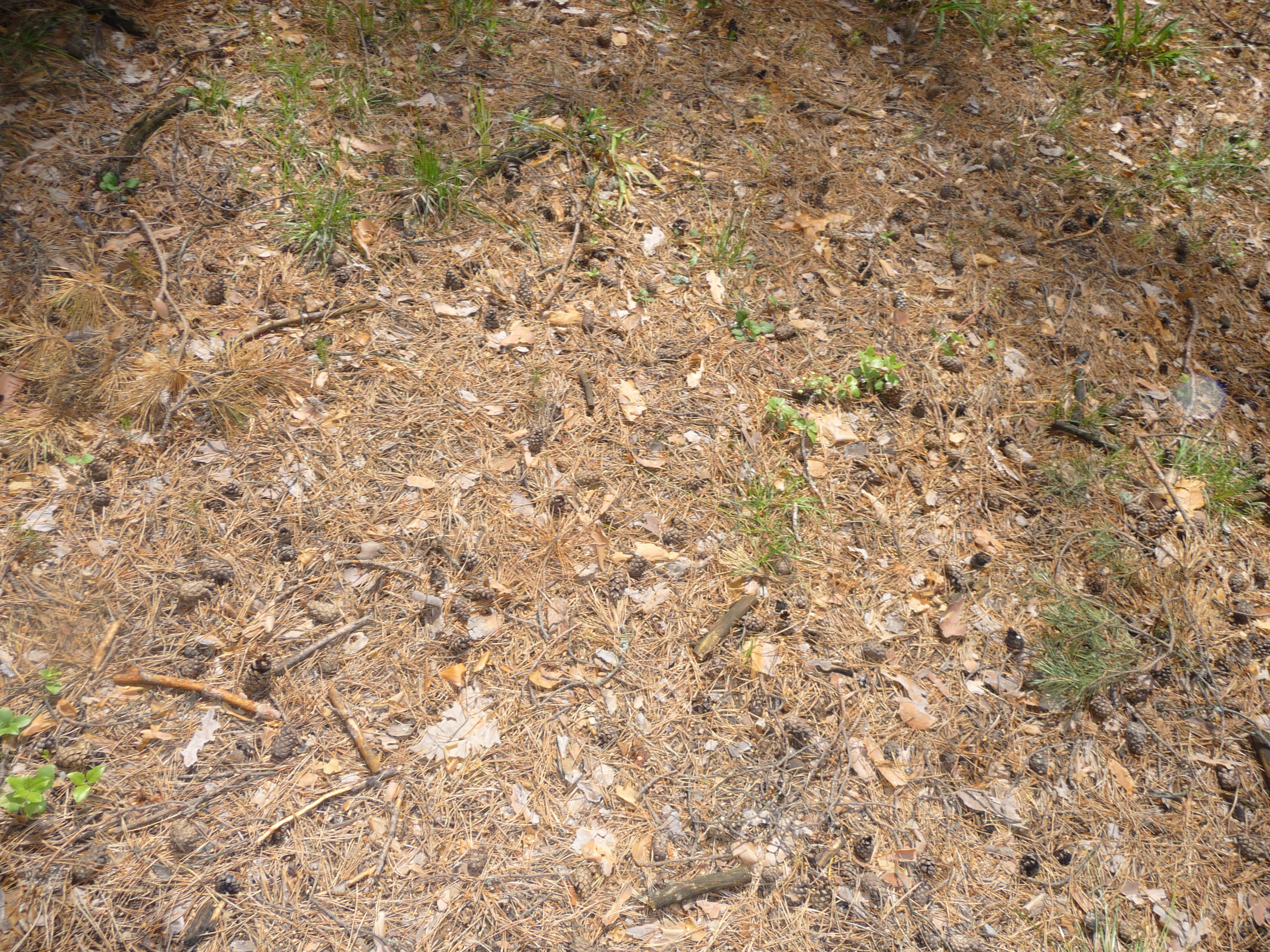 Wood laying